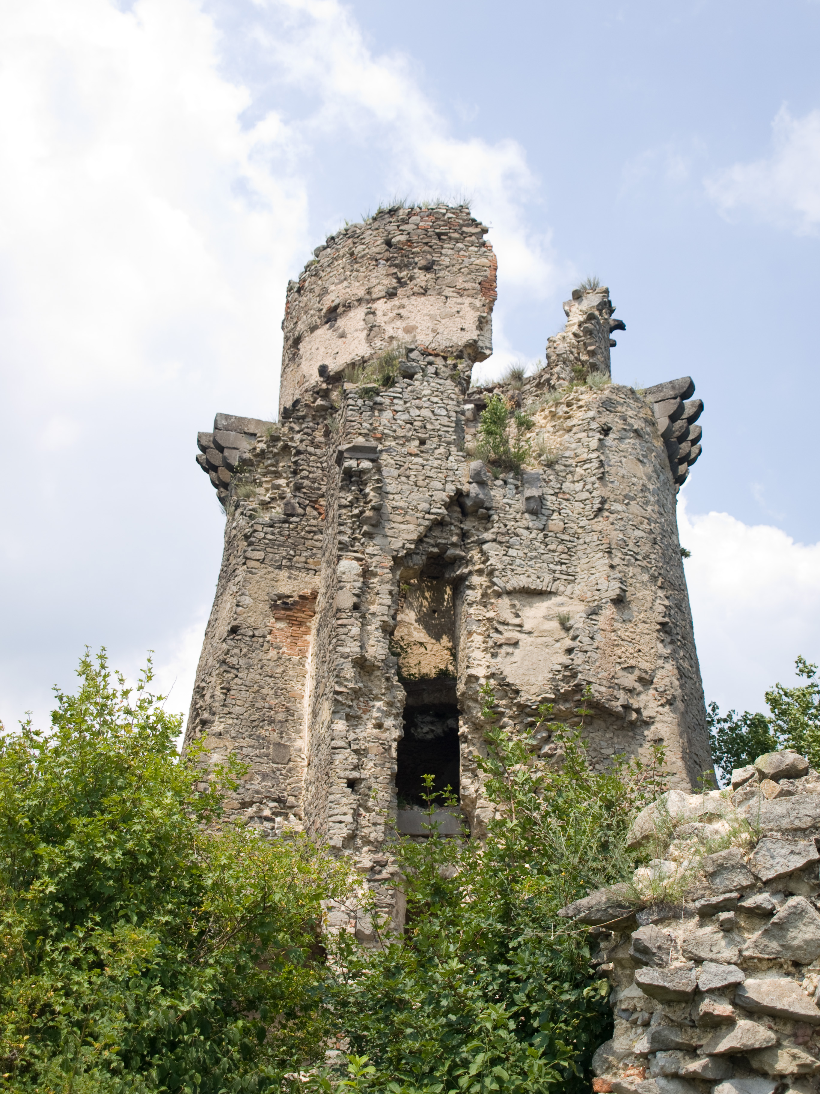 Castle, Slanec, Košice-okolie District This medium shows the protected monument with the number 806-40/0 (other) in the Slovak Republic.